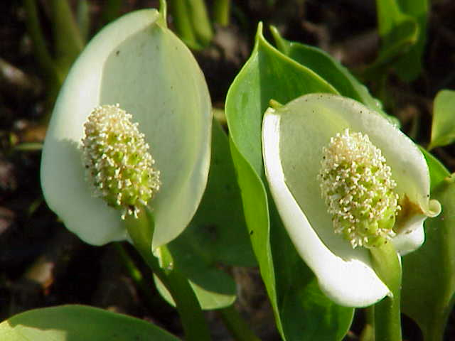 Species: Calla palustris (Drachenwurz) Family: Araceae Image No. 2